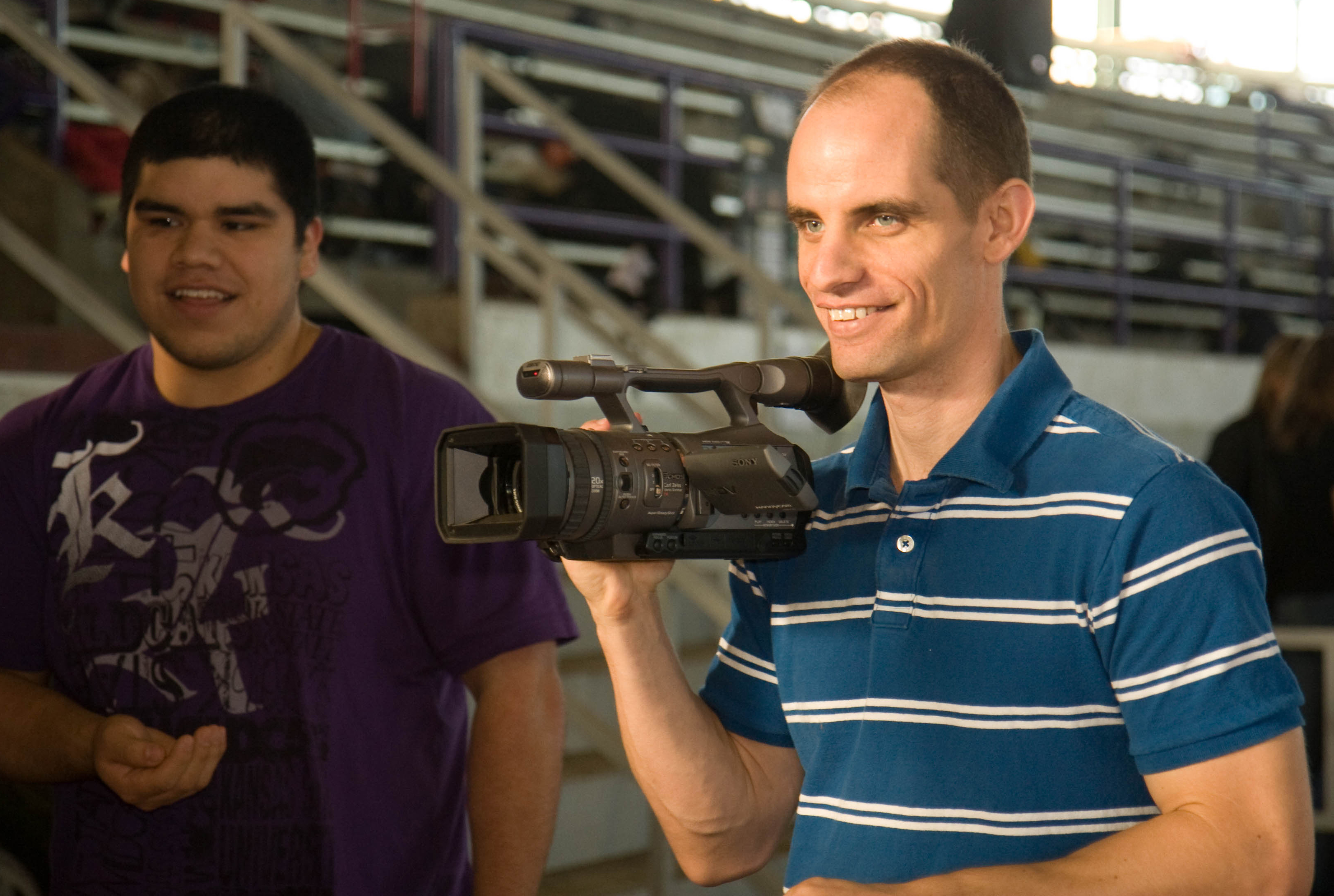 Wesch with camera during the World Simulation, an activity in his large Introduction to Cultural Anthropology classes.